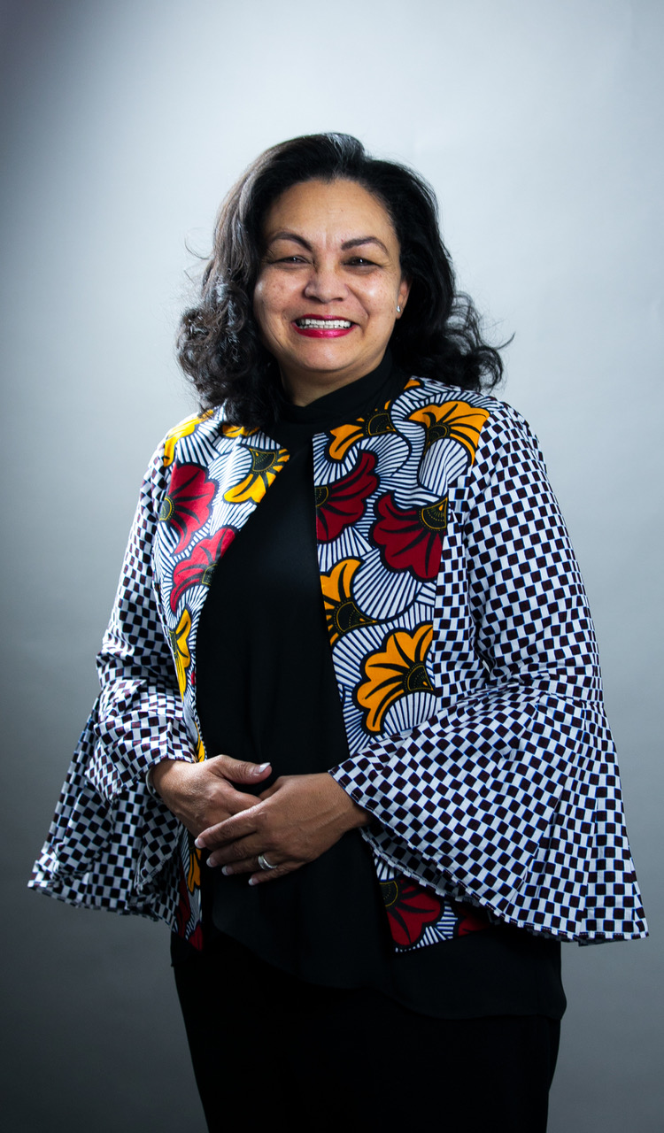 Paula Fray, CEO of frayintermedia and fraycollege.